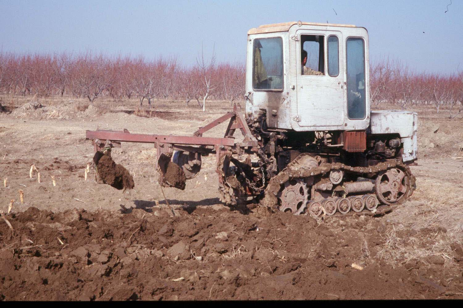 A Soviet era tractor cultivating in the fields of Armenia.